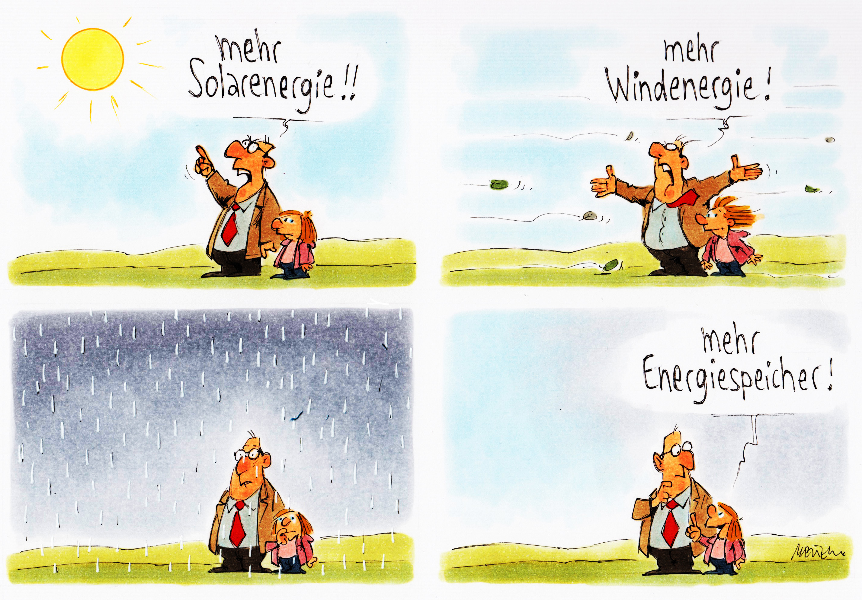 Cartoon by Gerhard Mester on the subject of energy storage and renewable energy - text: More solar energy!! / More wind energy! / ("dark doldrums") / More energy storage! - "dark doldrums": in German "Dunkelflaute" are times when solar and wind power is not available.